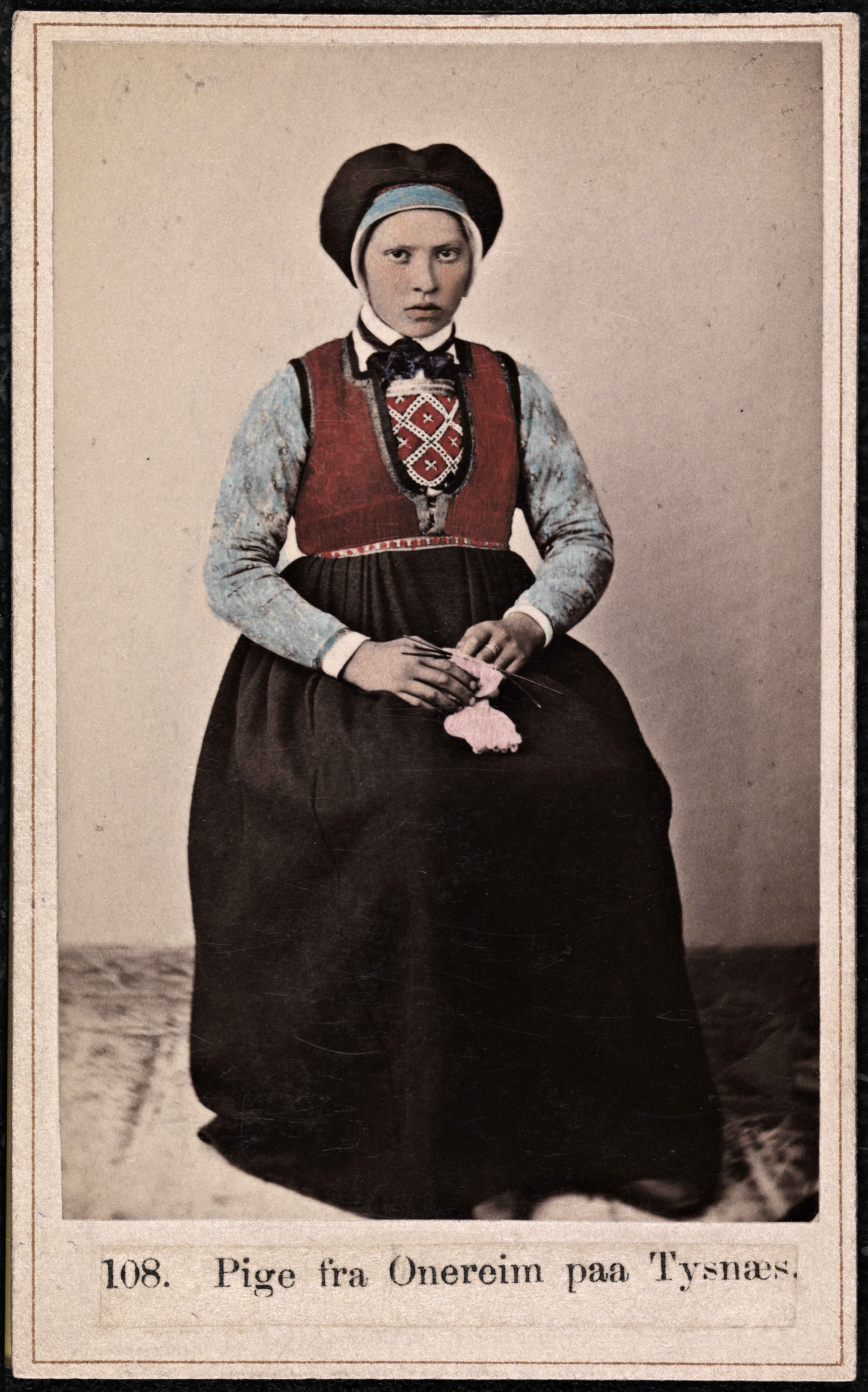 Beskrivelse / Description: Drakt fra Onarheim (Tysnes, Hordaland). Visittkort / Carte de visite. Dato / Date: ca. 1860-1870 Fotograf / Photographer: Marcus Selmer (1819-1900) Digital kopi av original / Digital copy of original: s/h papirpositiv, visittkort, kolorert Eier / Owner Institution: Nasjonalbiblioteket / National Library of Norway Lenke / Link: Bildesignatur / Image Number: bldsa_FA0560